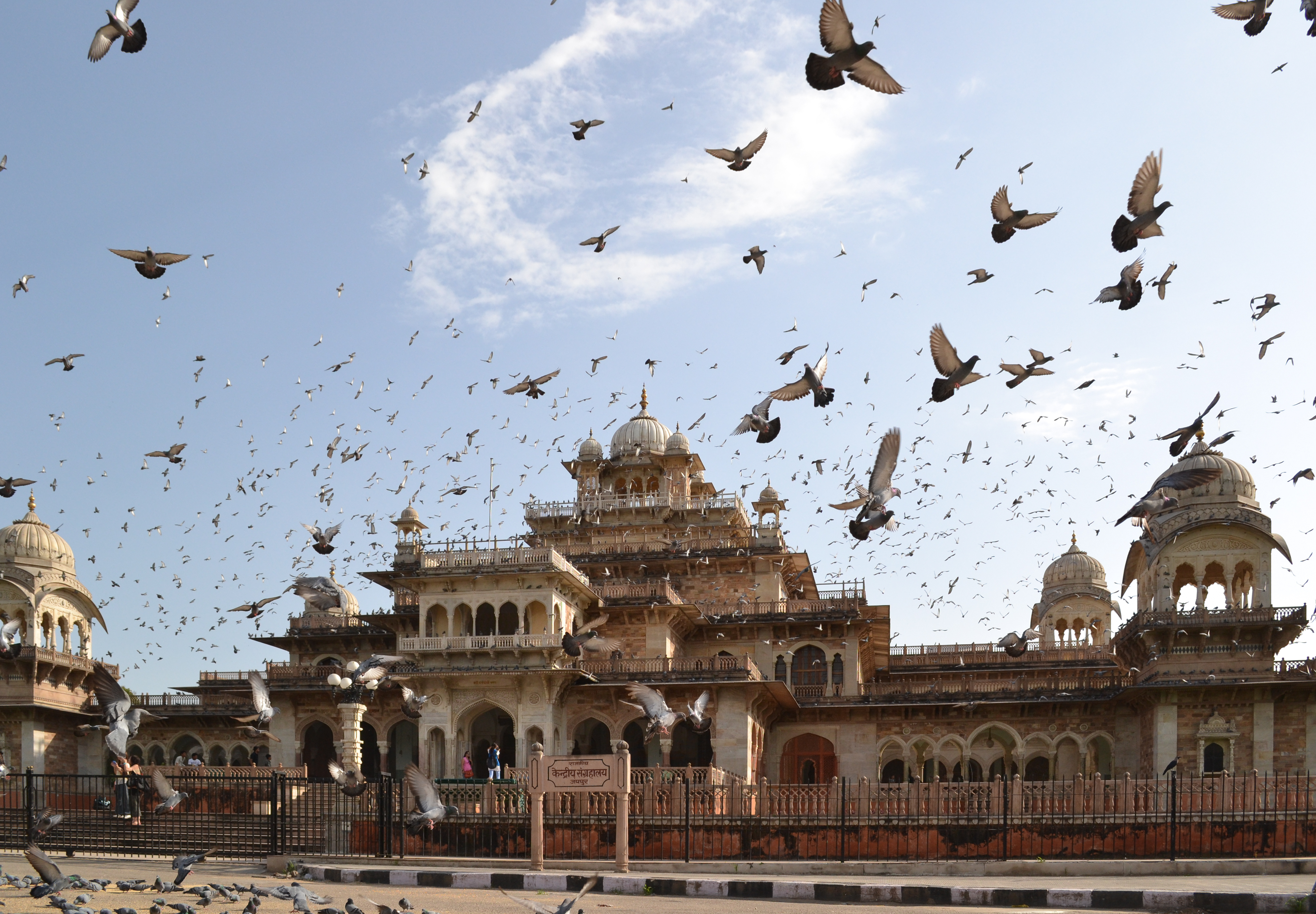 Albert Hall